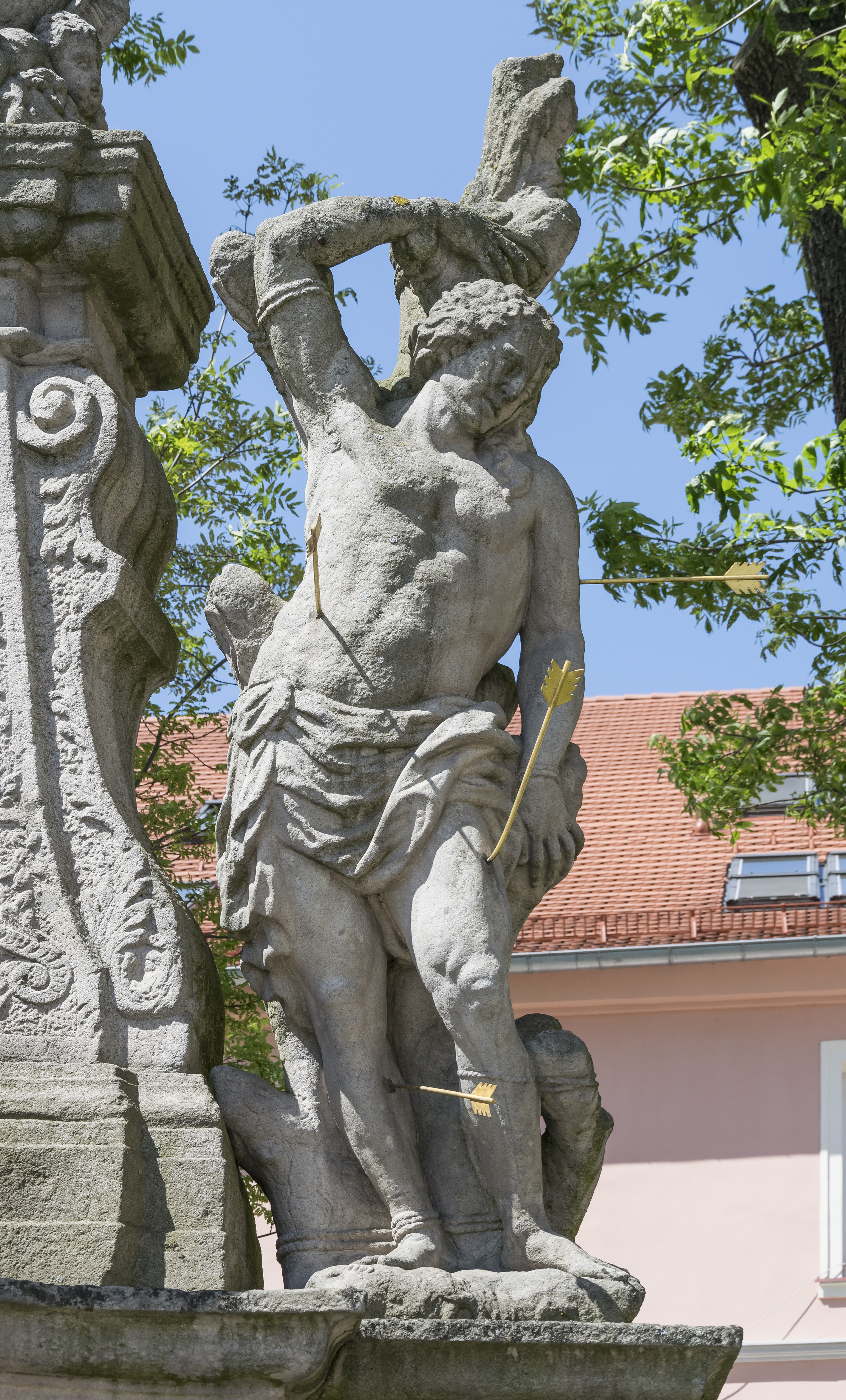 Marian column in Duszniki-Zdrój, Saint Sebastian